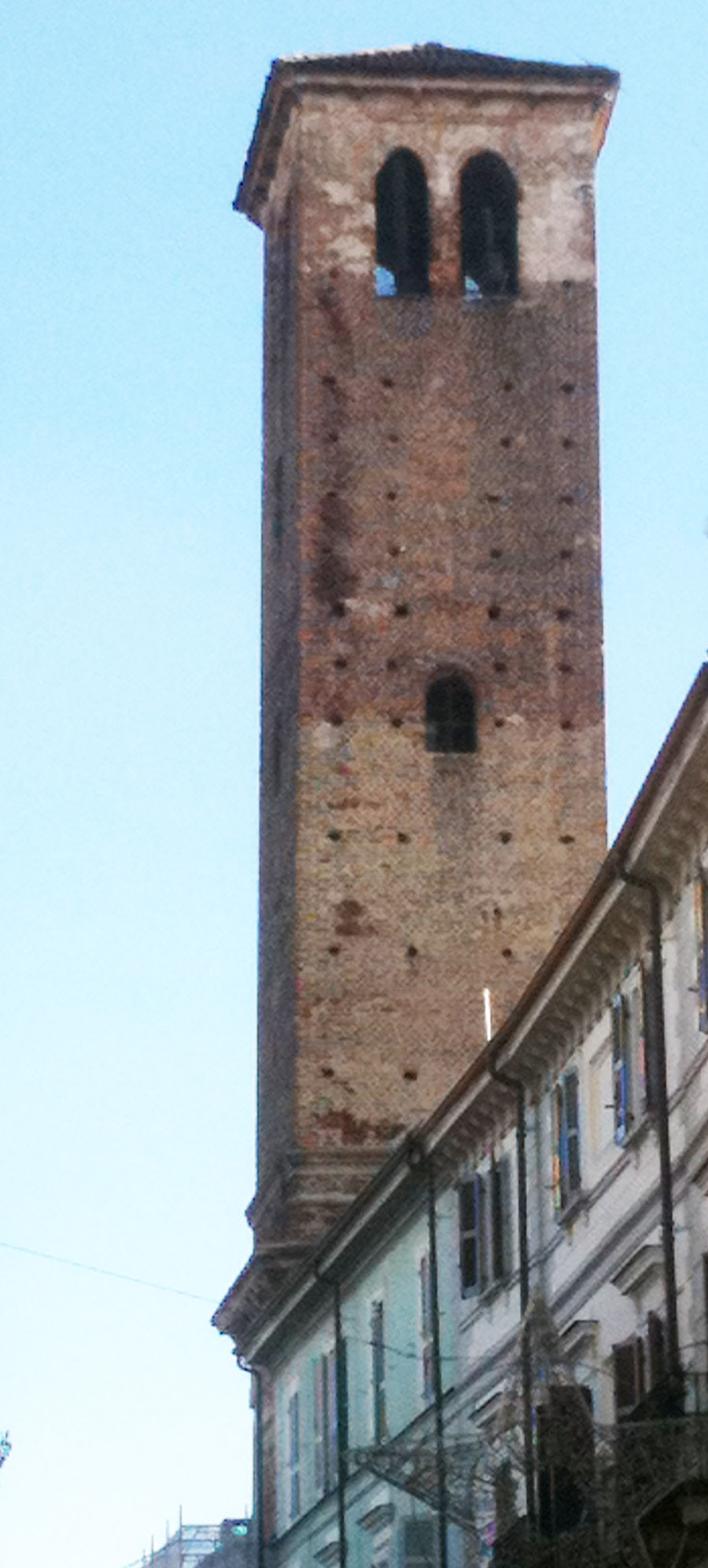 Torre Comunale Vercelli